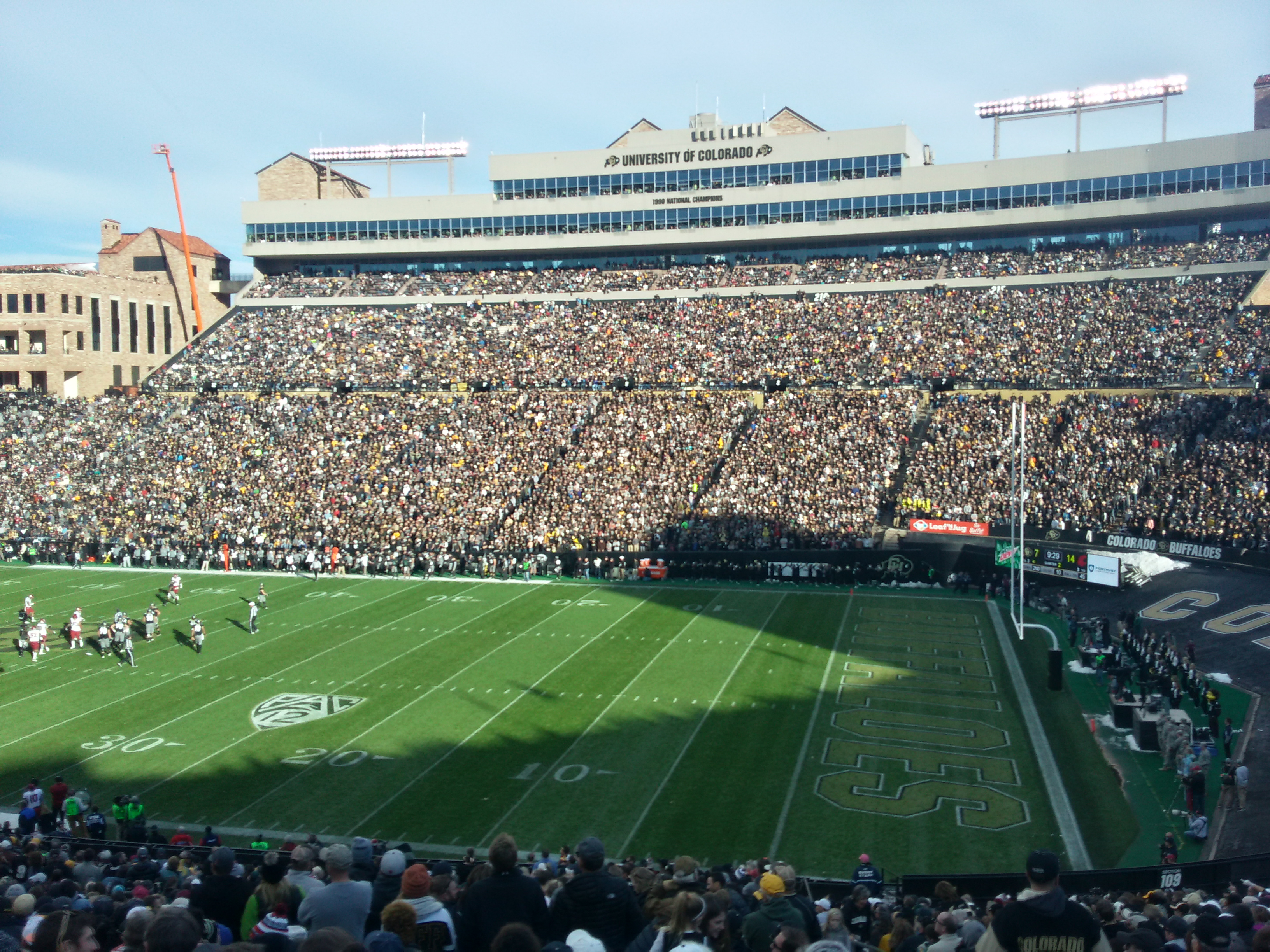 The east side of Folsom Field, including the club level and the Champions Center, in November 2016.